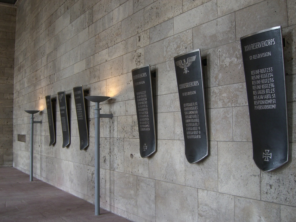 Langemarck hall; memorial of German WW I. soldiers in Berlin